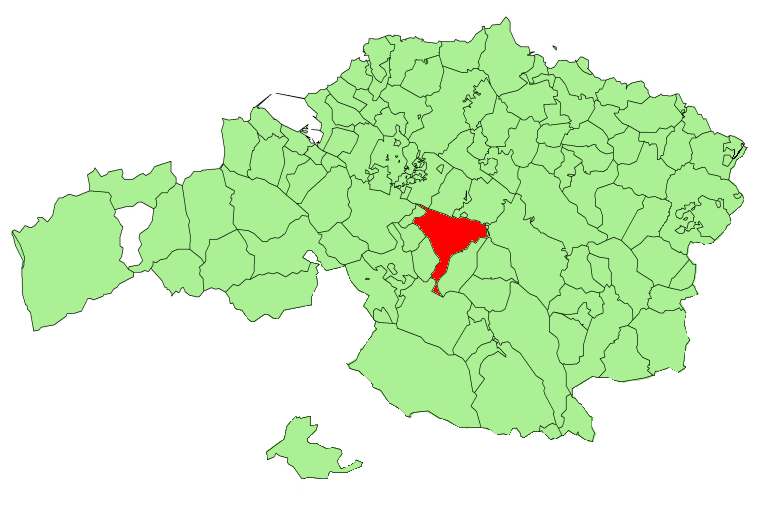 Galdakao municipality in the province of Biscay